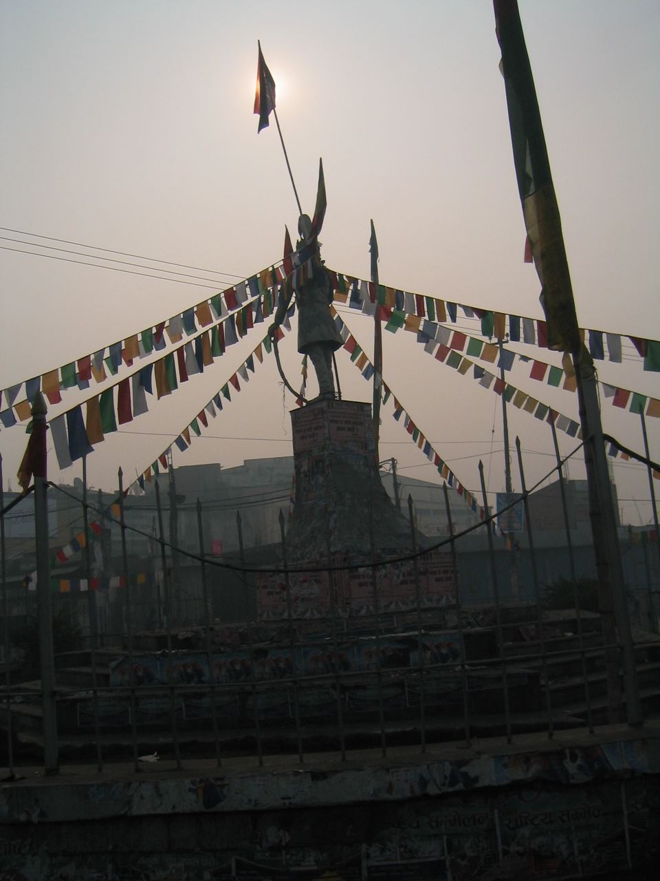 A monument located in the center of Biratnagar, Nepal.